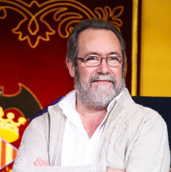 Julio Monterrubio while presenting his Falla for Duc de Gaeta-Pobla de Farnals